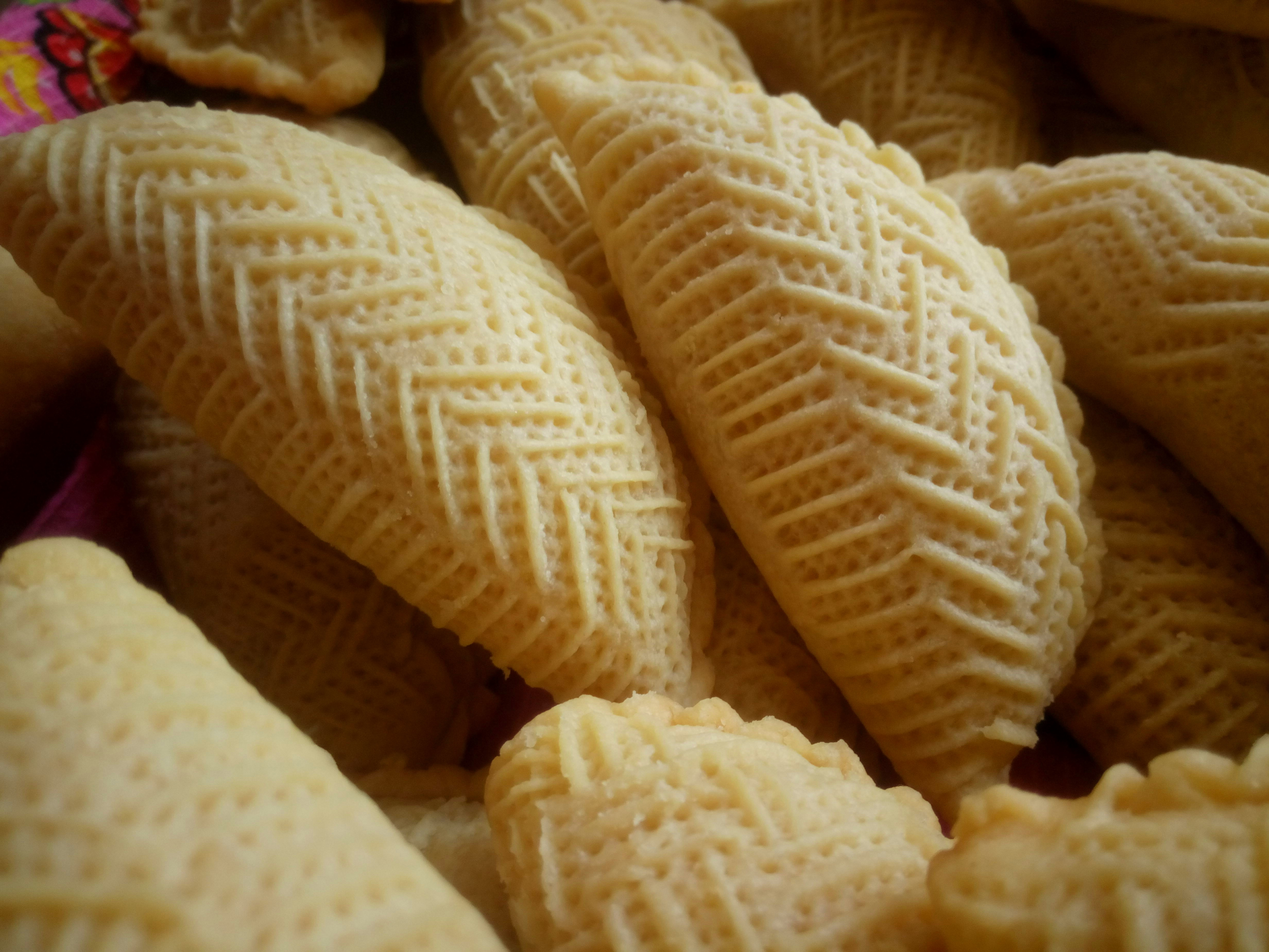 Azeri sweets